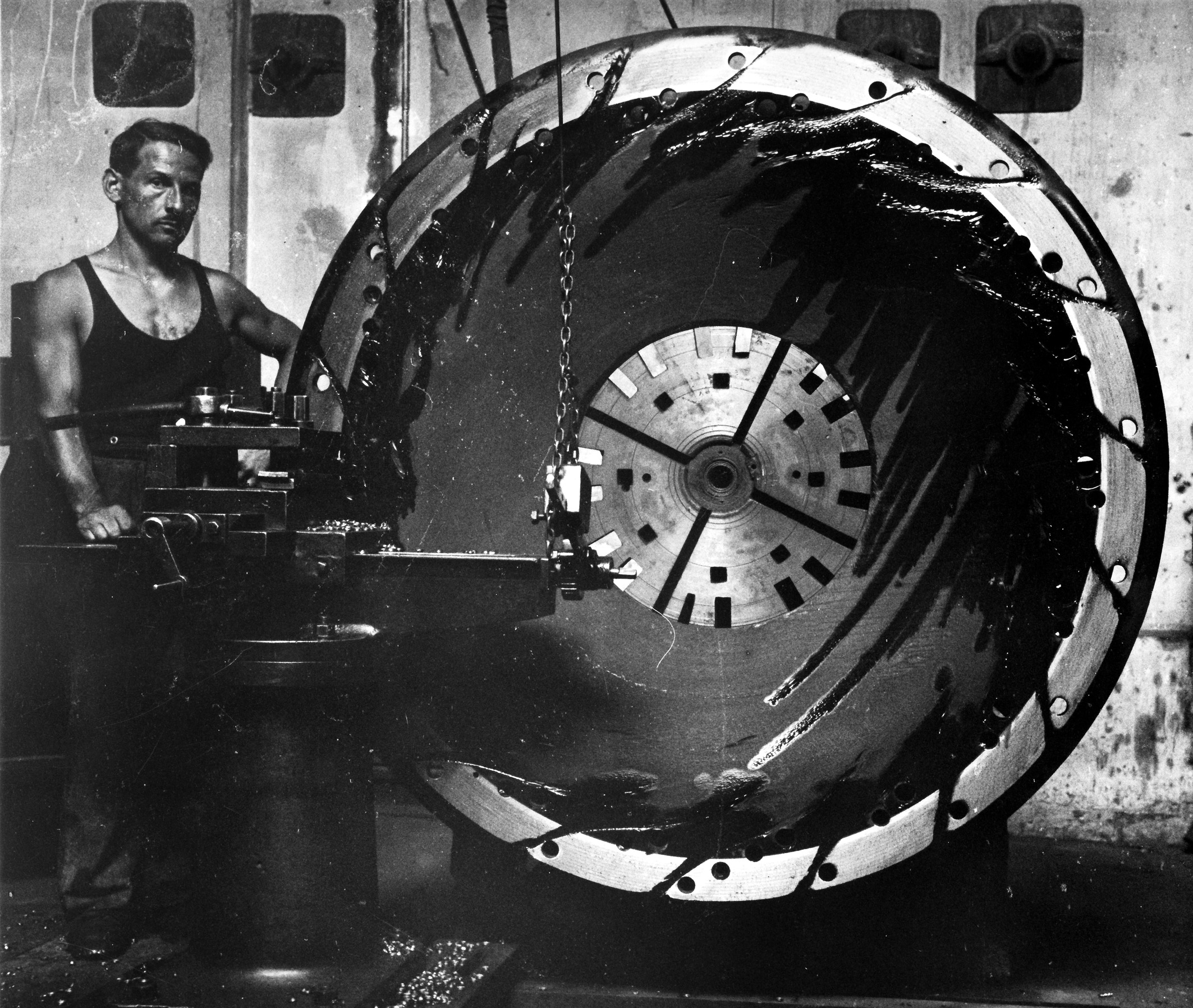 Self portrait in an aluminum factory by the austrian photographer Fritz Macho.